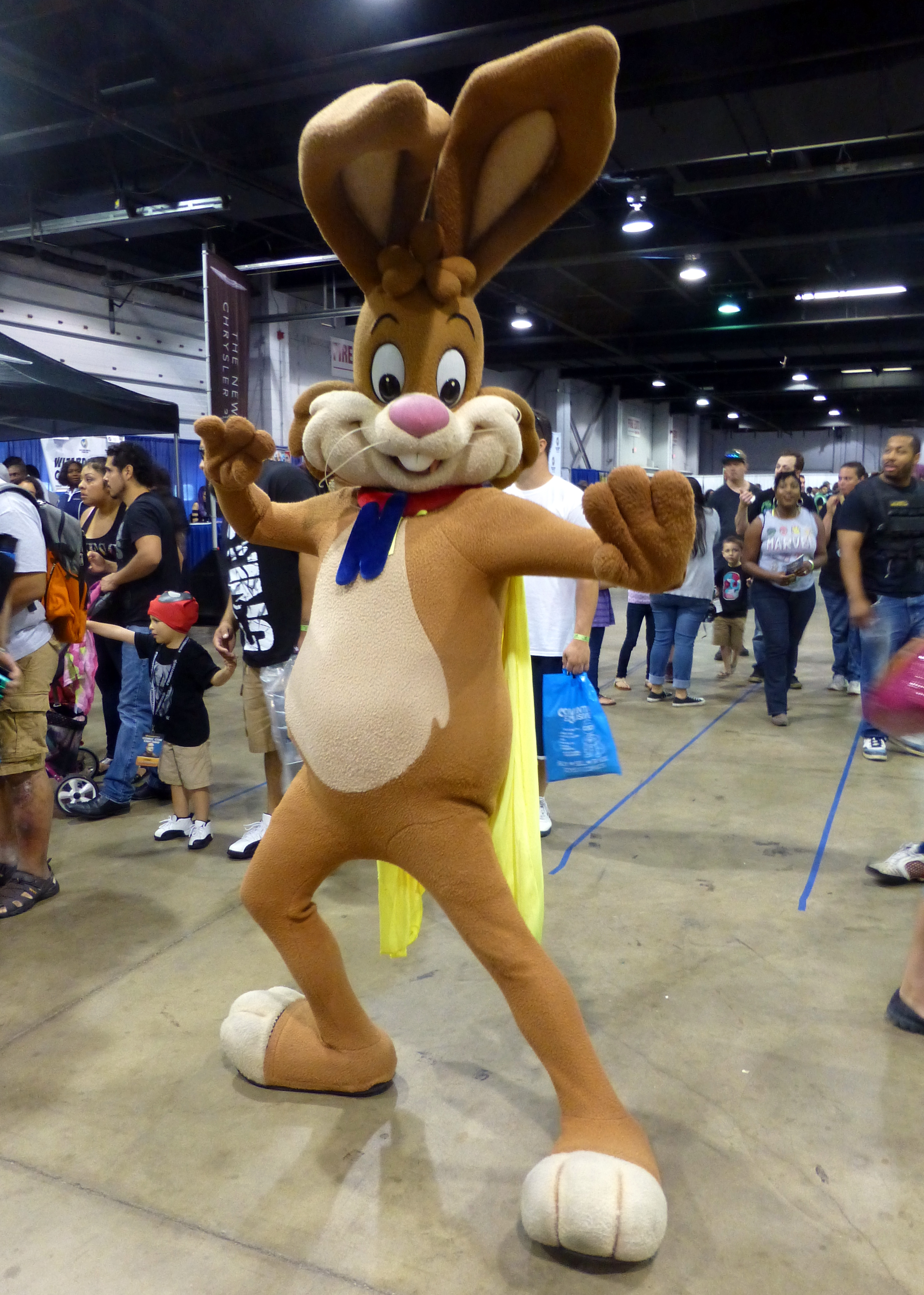 Nesquik bunny Cosplay at the 2015 Wizard World Chicago.